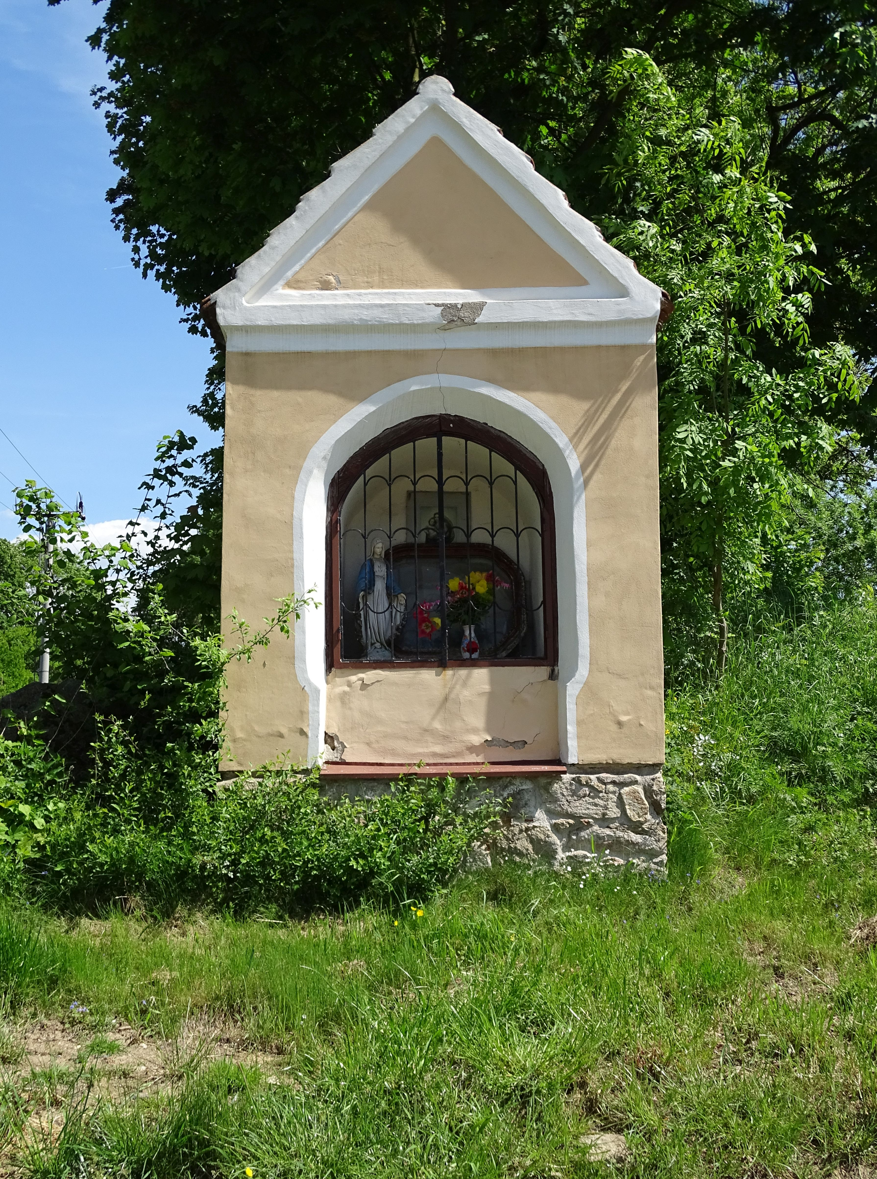 Prosenická Lhota-Luhy, Příbram District, Central Bohemian Region, Czech Republic. A chapel-shrine.